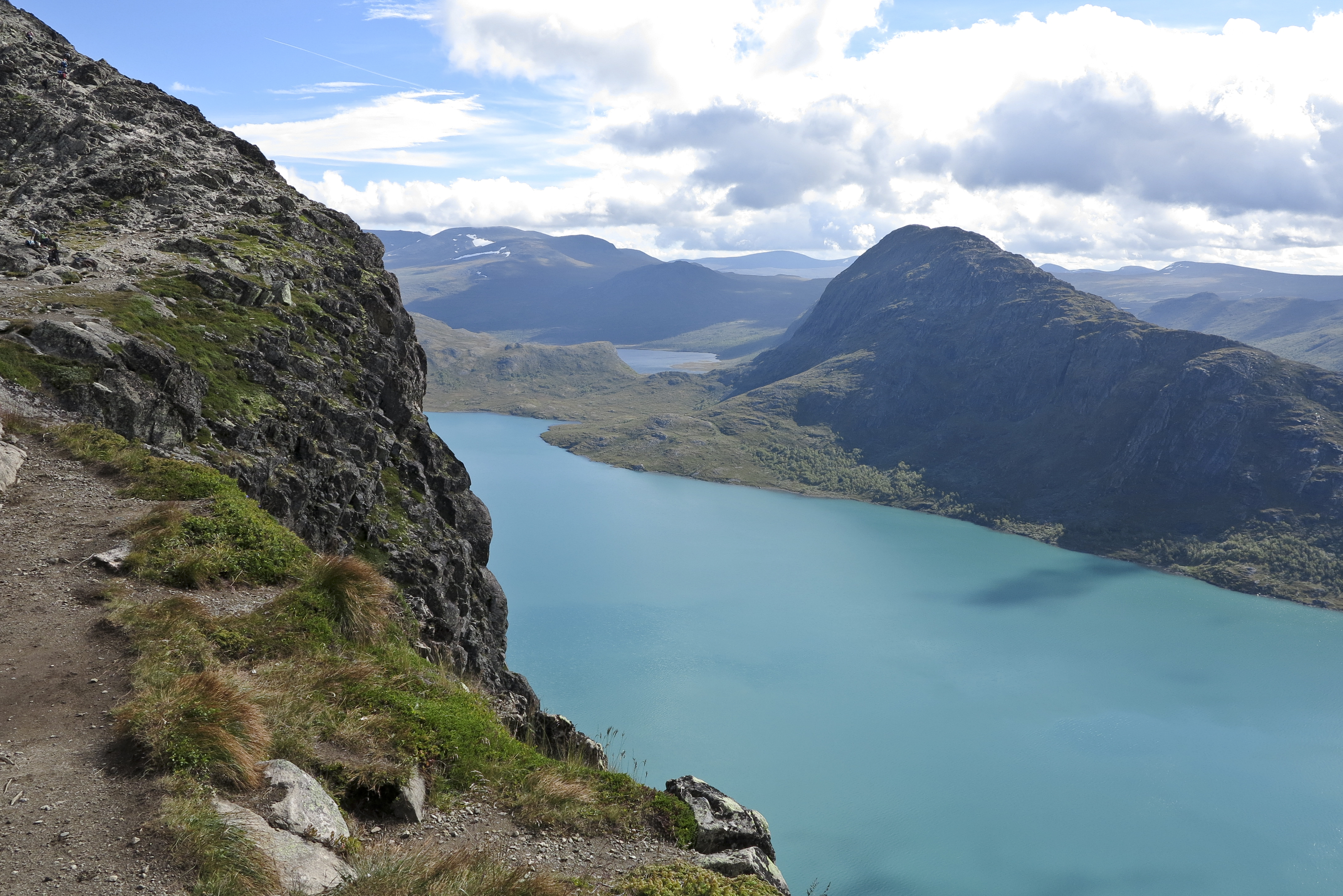 Lake Gjende seen from Besseggen. Norway